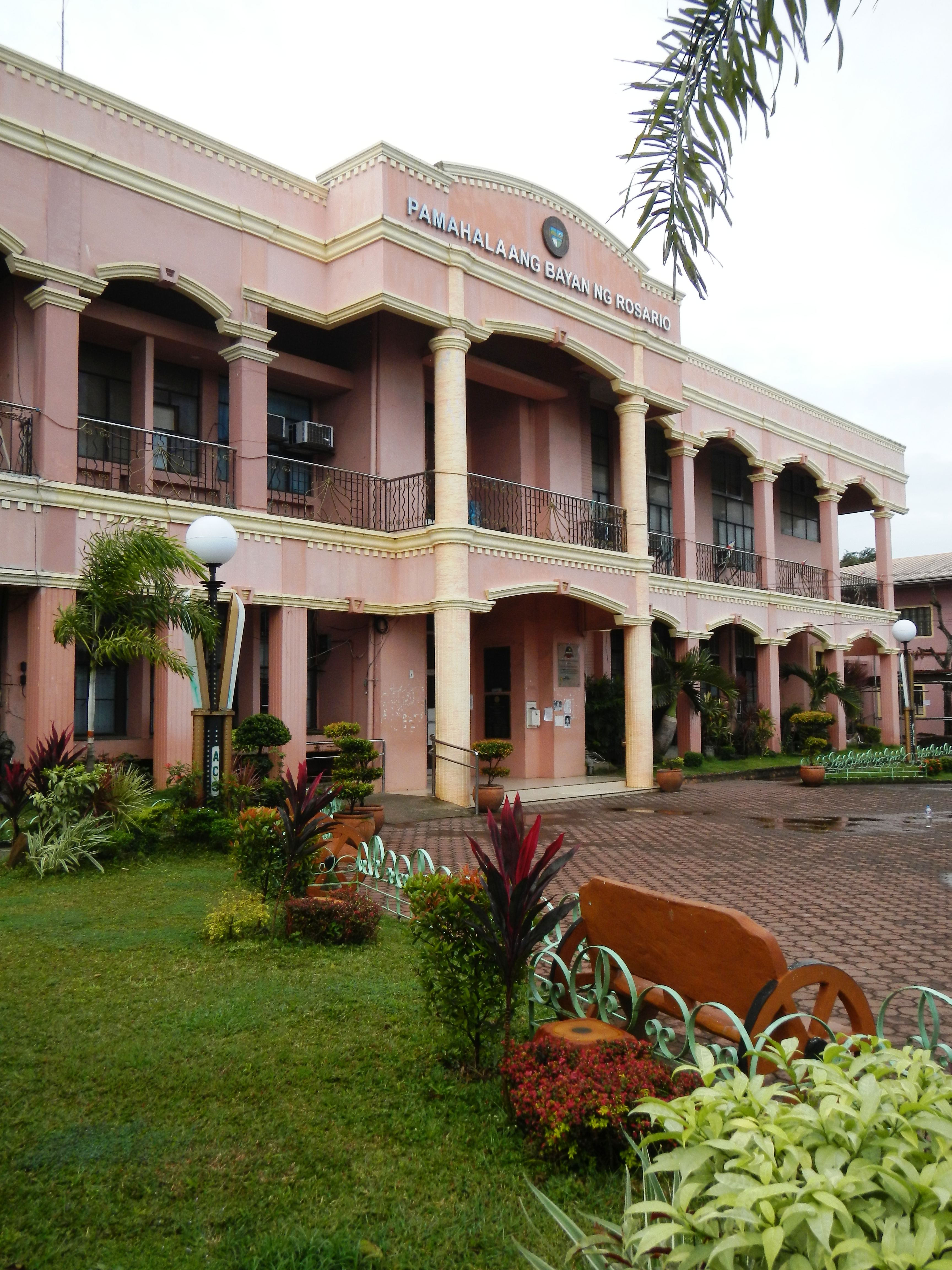 Upload Wizard photos of - Rosario Municipal Hall, Poblacion Rosario, Town Proper, [1] Coordinates: 13°50'44"N 121°12'22"E - Rosario, Batangas [2] (a 1st class municipality in the province of Batangas, Philippines; 2000 census, population of 86,110 people in 16,288 households).[3] Website [4] - Aksyon ng Bayan Rosario 2001 And Beyond [5] [6] - (Aksyon ng Bayan Rosario 2001 And Beyond Human and Ecological Security Plan evolved by Executive Order No. 98-02, October 5, 1998 by Mayor Rodolfo Guerra Villar of Rosario, Batangas in compliance with 1992 Earth Summit in Rio de Janeiro.[7] and Metropolitan Cathedral of Saint Sebastian of Lipa City - San Sebastian Cathedral CM Recto Ave., Poblacion, Lipa City, Batangas, Philippines[8]Metro Lipa Cathedral Its first grand concept was completed in 1865 but, after the devastation of WWII, it underwent massive reconstruction.circular dome, massive walls and balconies,Coordinates: 13°56'27"N 121°9'48"E[9]Administered by the Augustinians beginning April 30, 1605 (and until the end of the 19th century) under the name “Convent of San Sebastian in Comintang” The church was totally completed from 1865 to 1894 during the administration of Fray Benito Baras to whom Lipeños attribute their religiosity.[10]Metropolitan Archbishop: Archbishop Ramon Cabrera Argüelles Lipa City, Batangas[11].